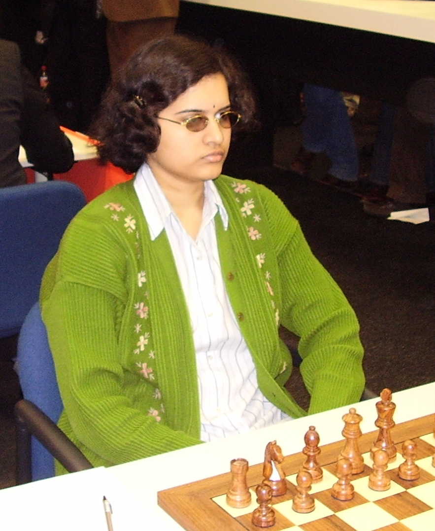 H. Koneru at Corus tournament, January 2006. Own photo.